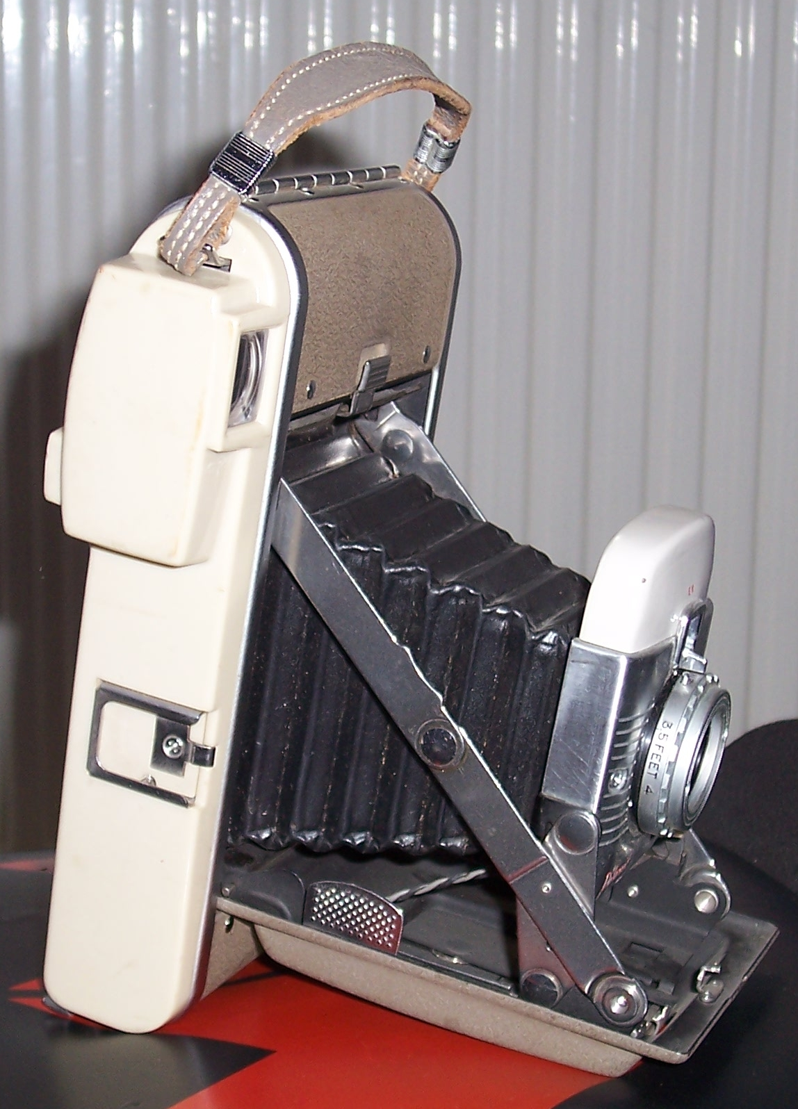 Polaroid80b Land camera (side view) 1948